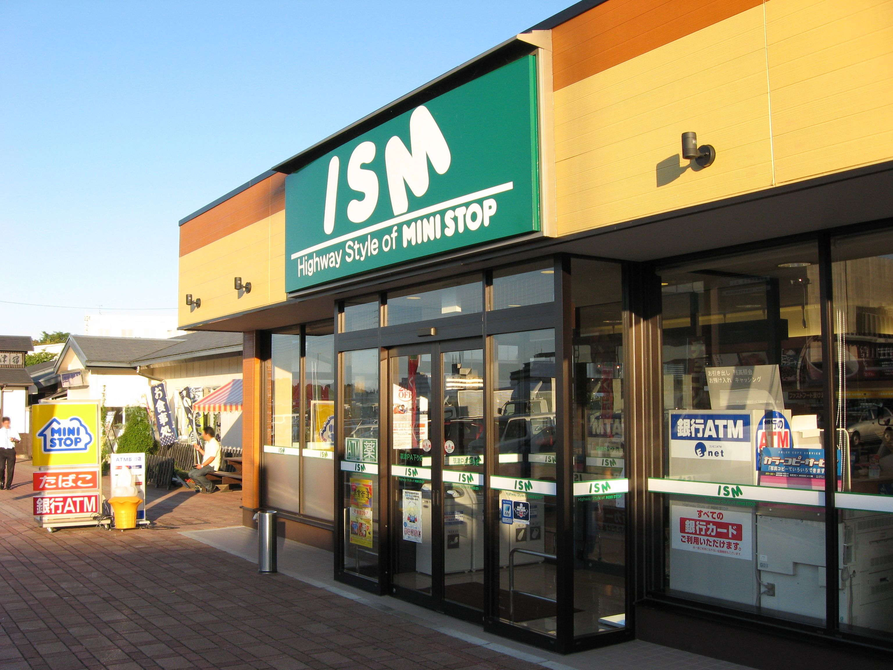 ISM Highway Style of MINISTOP, in Meishin Expressway Kusatsu Parking Area (Down Line).